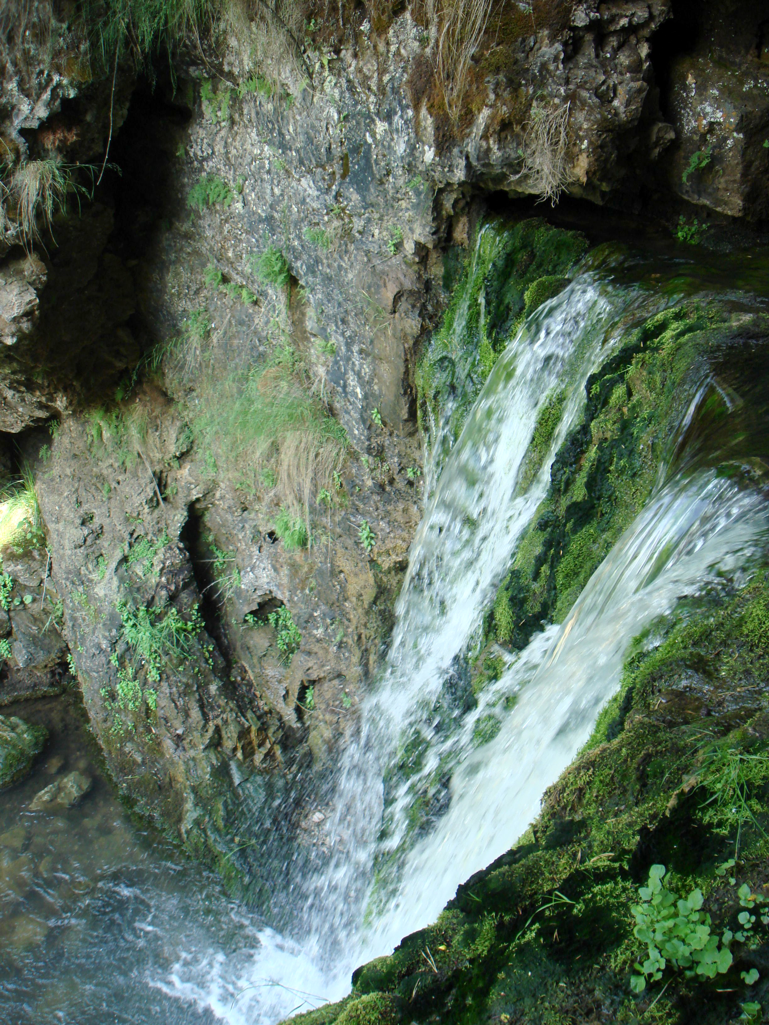 Atysh waterfall